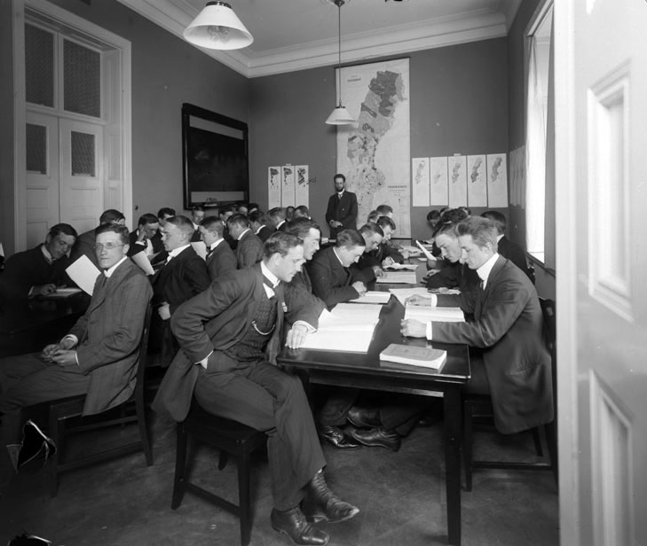 Reading room at the Stockholm School of Economics at Brunkebergstorg 2, Stockholm